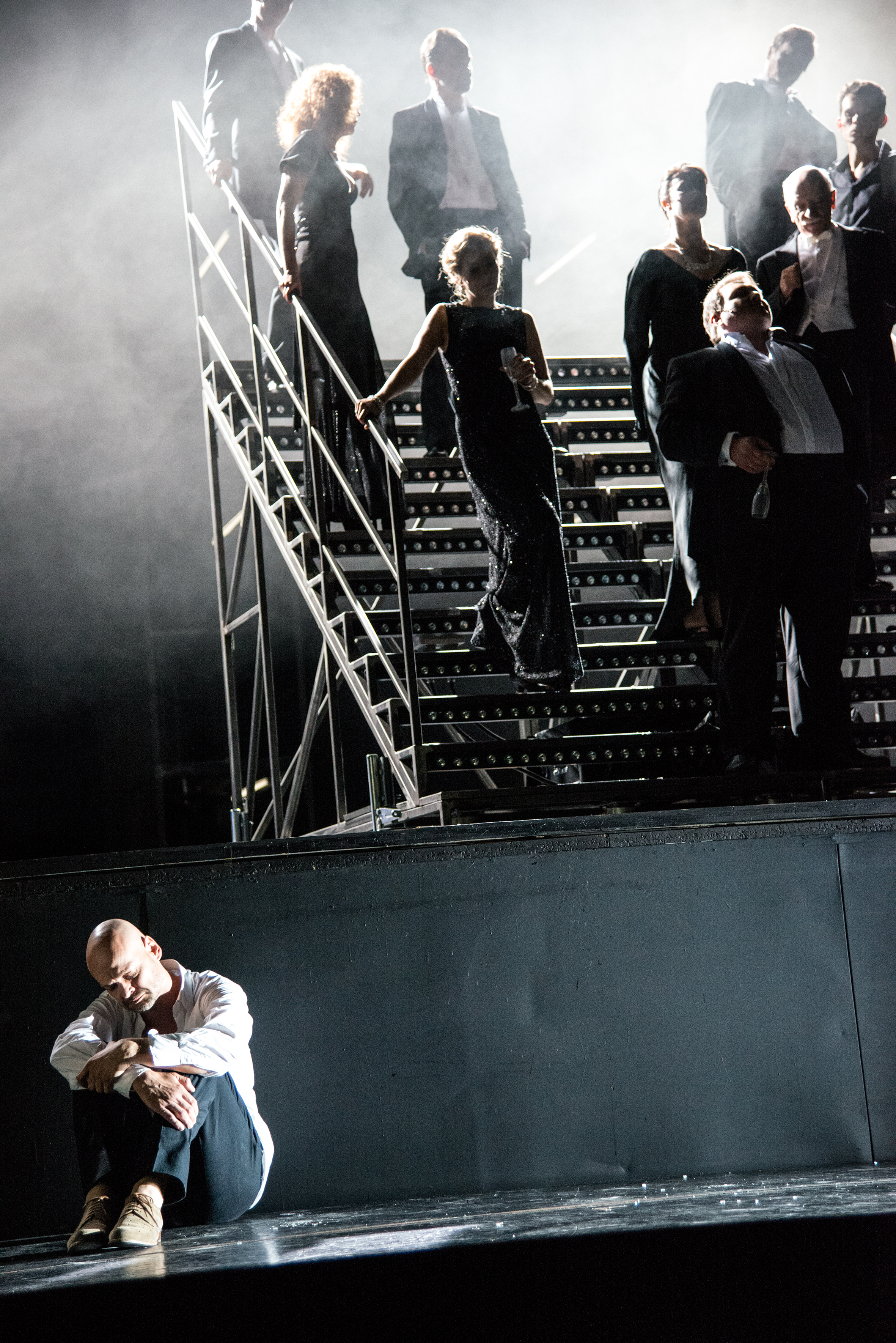 Die letzten Tage der Menschheit (Karl Kraus), Salzburger Festspiele 2014 - Dietmar König and Ensemble of Vienna Burgtheater